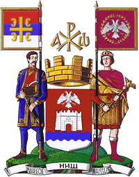 Great coat of arms of Niš, Serbia